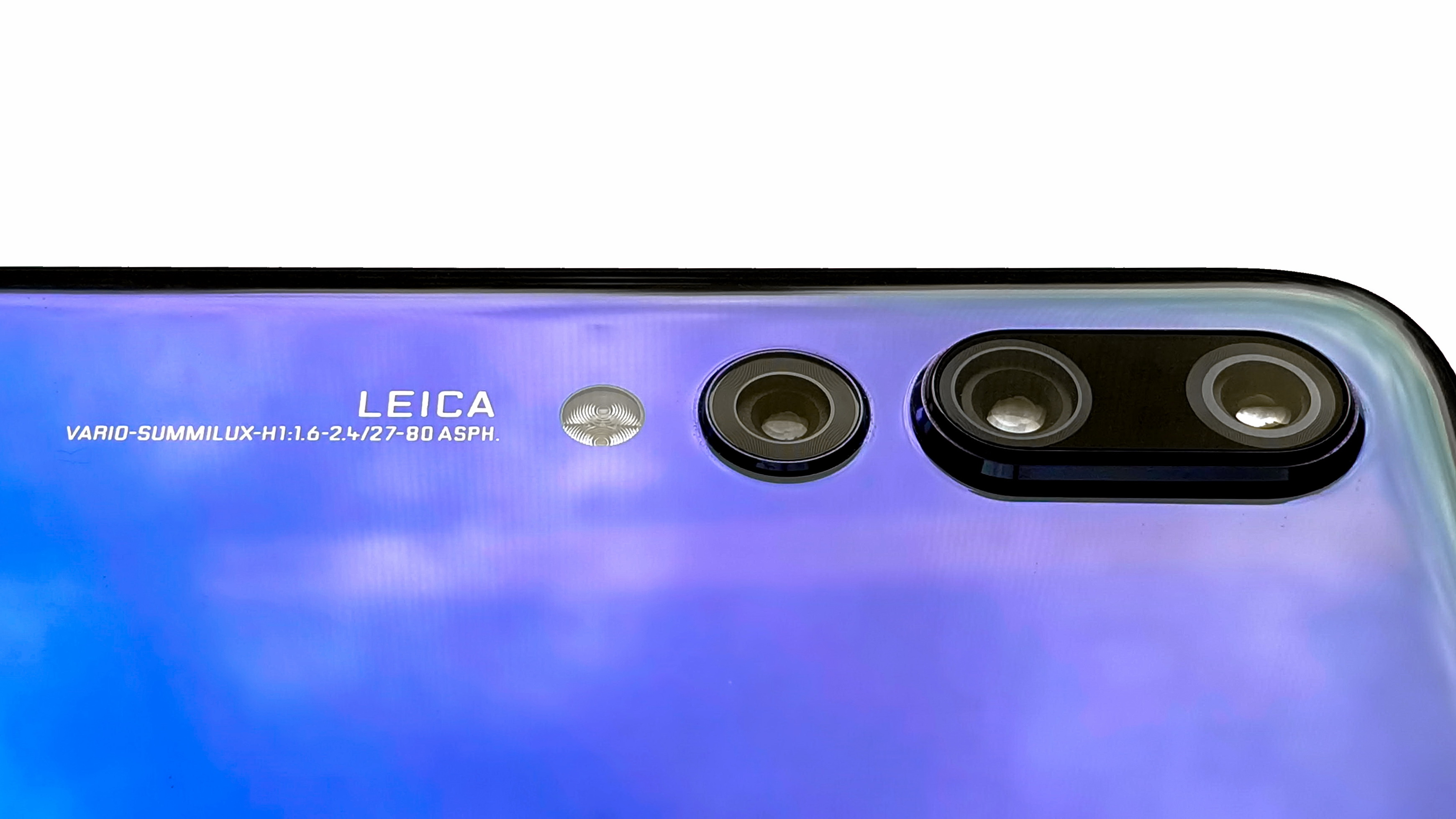 A close-up photo of the Huawei P20 Pro smartphone